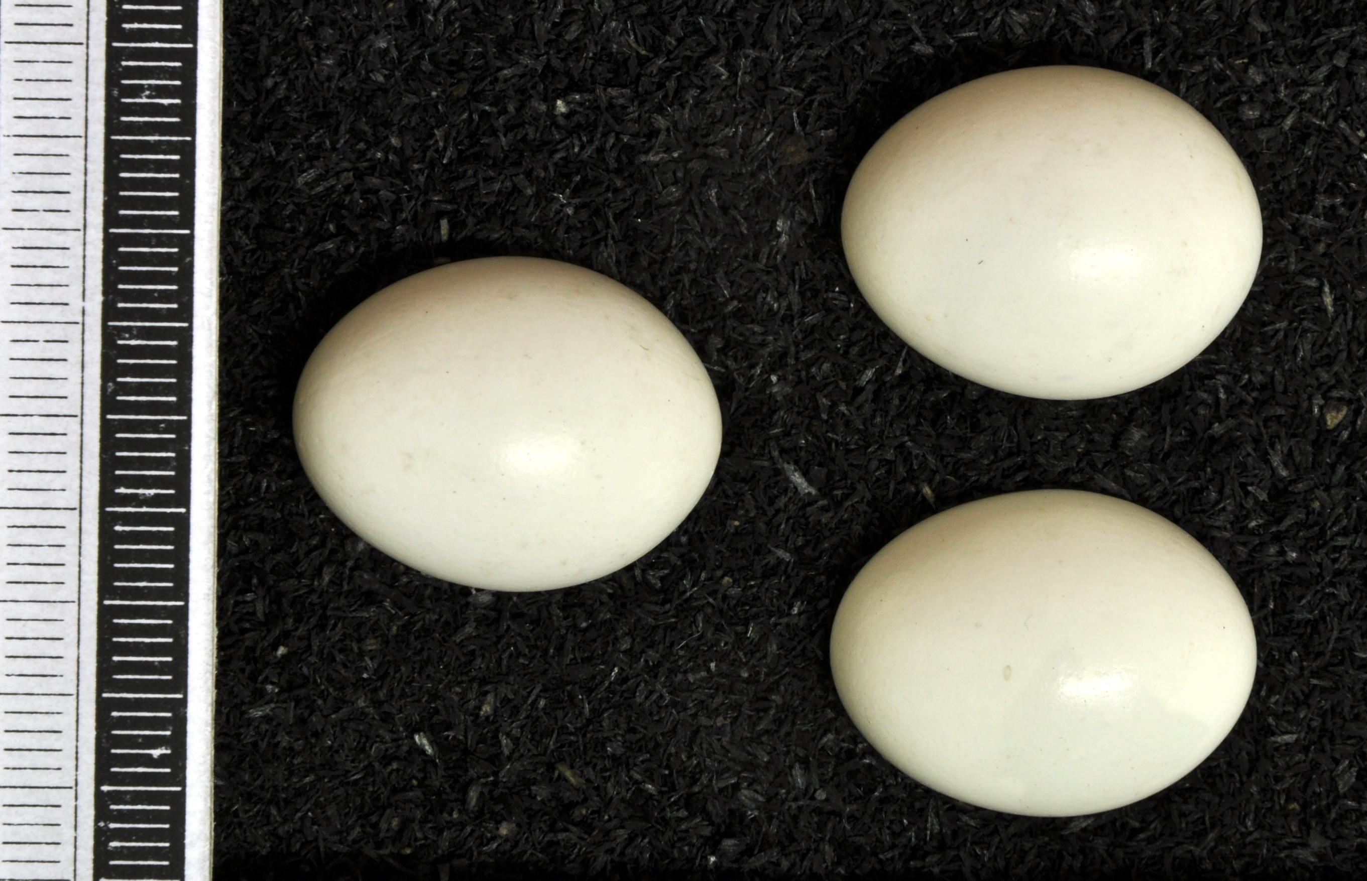 Middle spotted woodpecker Dendrocopos medius , egg, Coll. Museum Wiesbaden